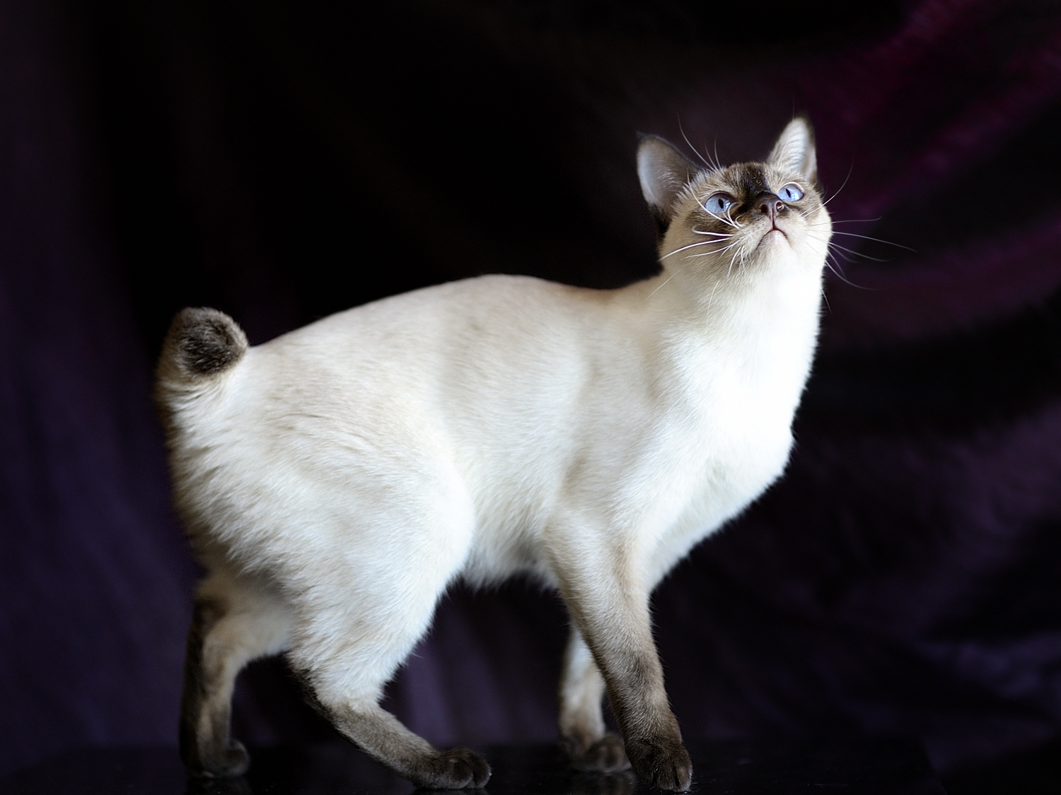 MEKONG BOBTAIL cat of unique chocolate-point colour Talestra of Cofein Pride. Cofein Pride cattery (WCF).